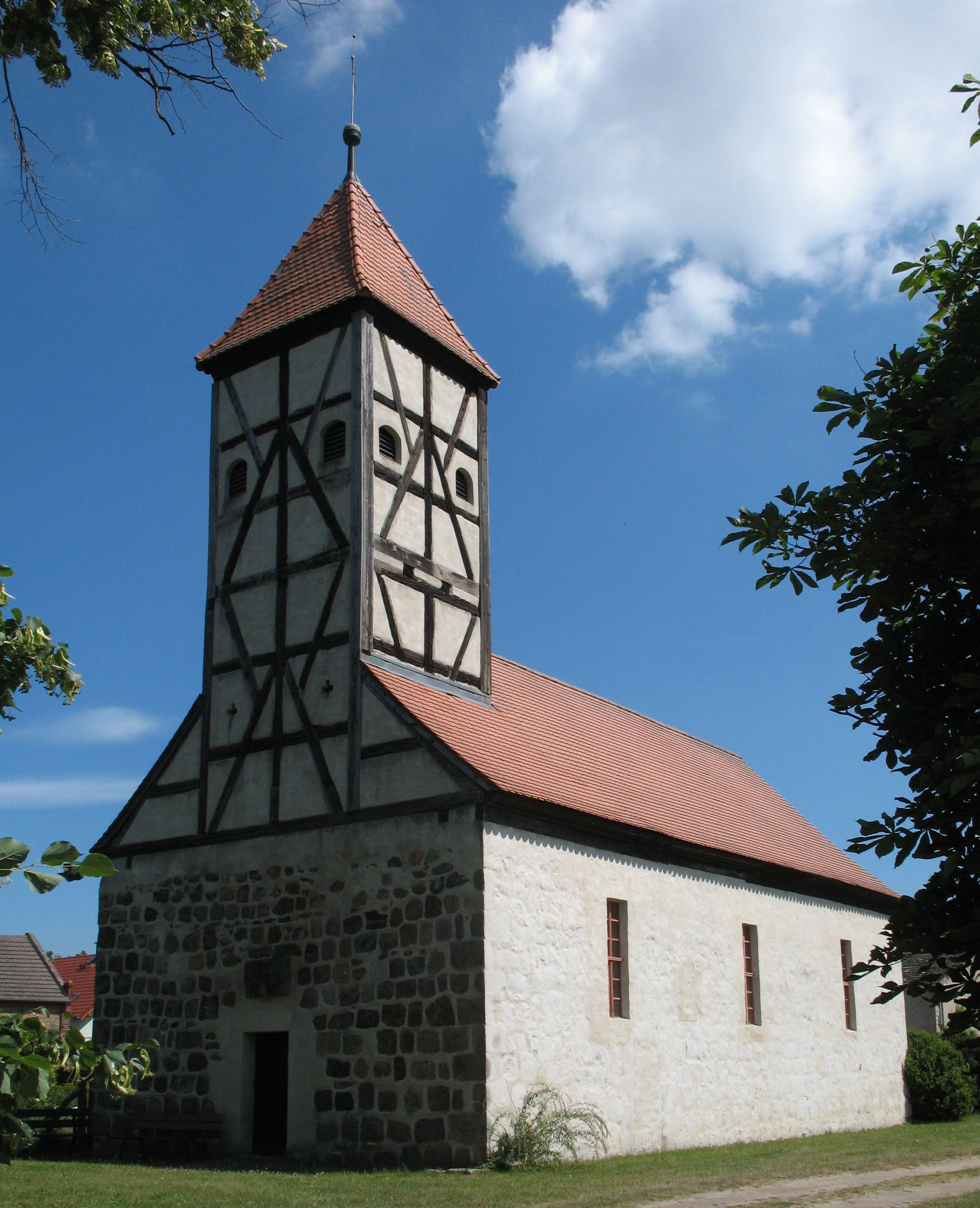 Church in Mahlenzien in Brandenburg an der Havel in Brandenburg, Germany